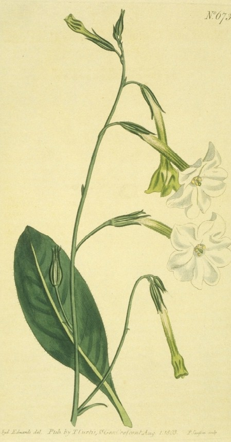 depicting the plant Nicotiana suaveolens and given the title: New-holland Tobacco